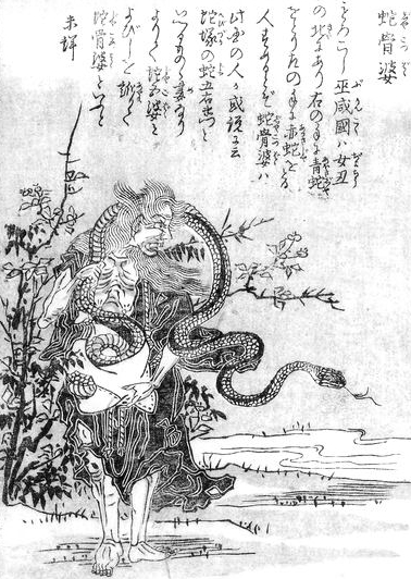 Jakotsu-babaa (蛇骨婆, an old woman who guards a snake mound) from the Konjaku Hyakki Shūi (今昔百鬼拾遺)